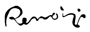 autograph of the painter Pierre-Auguste Renoir